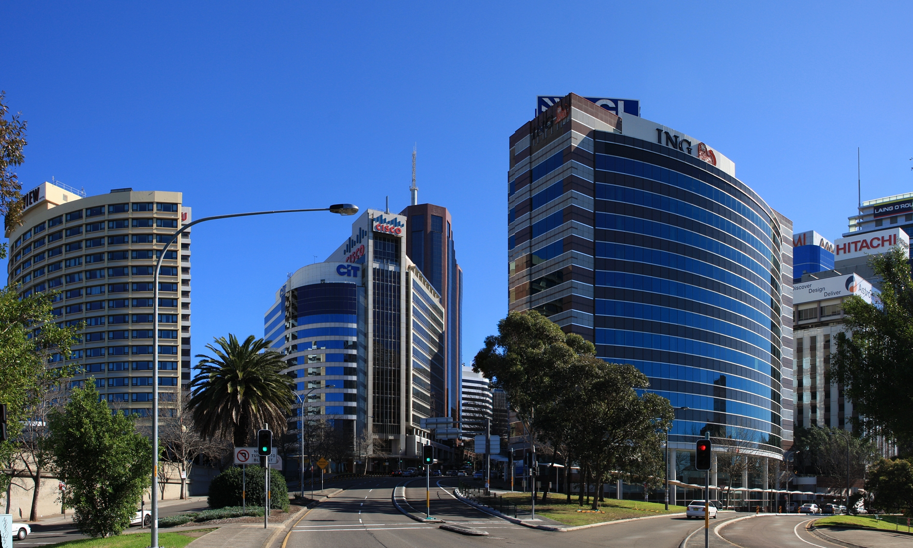 Pacific HWY North Sydney